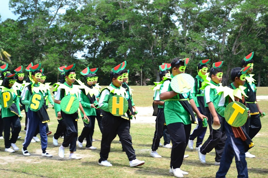 SUKAN 9